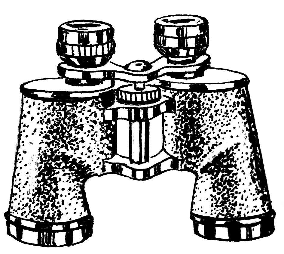 An illustration of binoculars